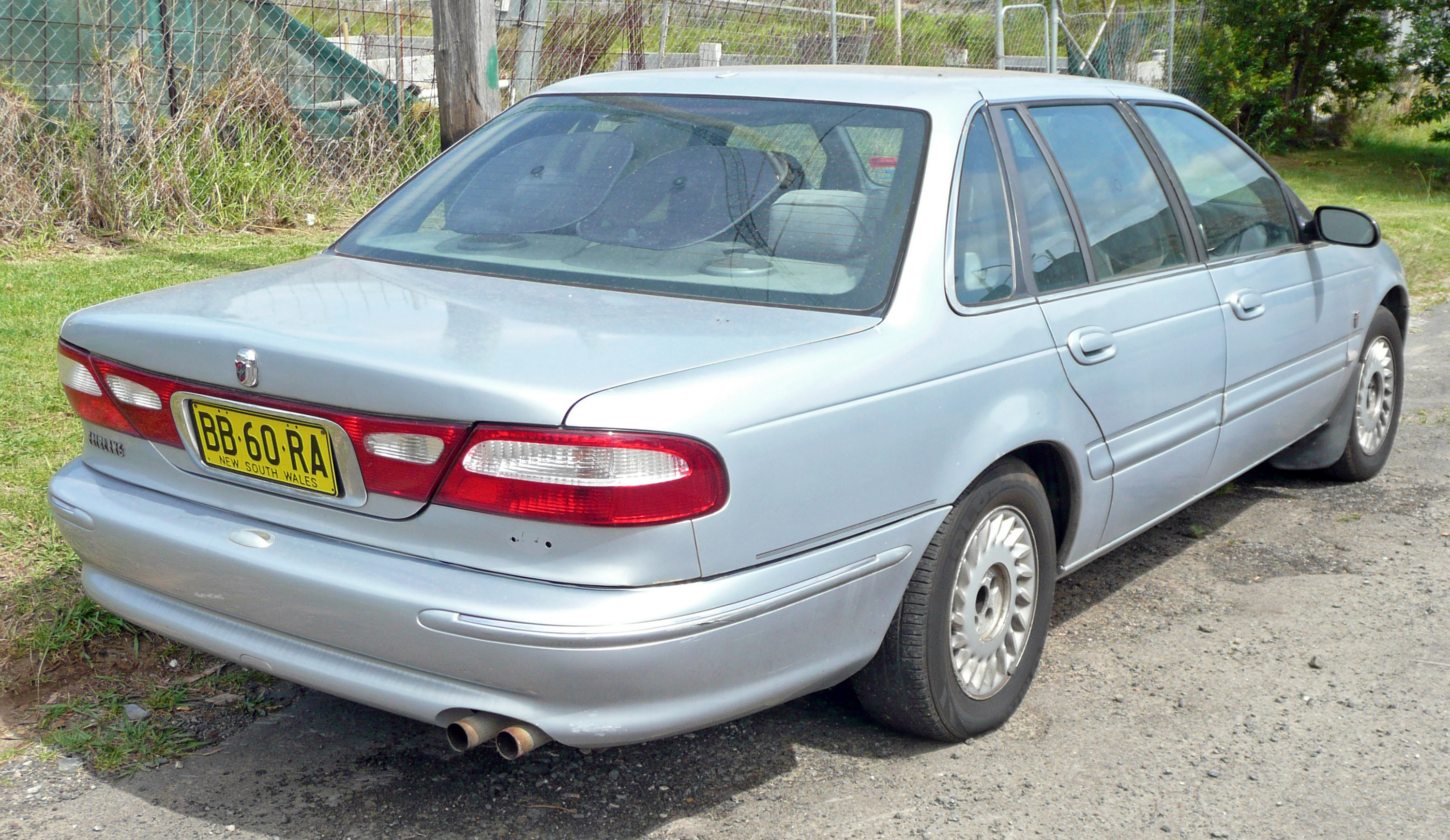 1996 Ford Fairlane (NF II) Ghia sedan. Photographed in Sutherland, New South Wales, Australia.